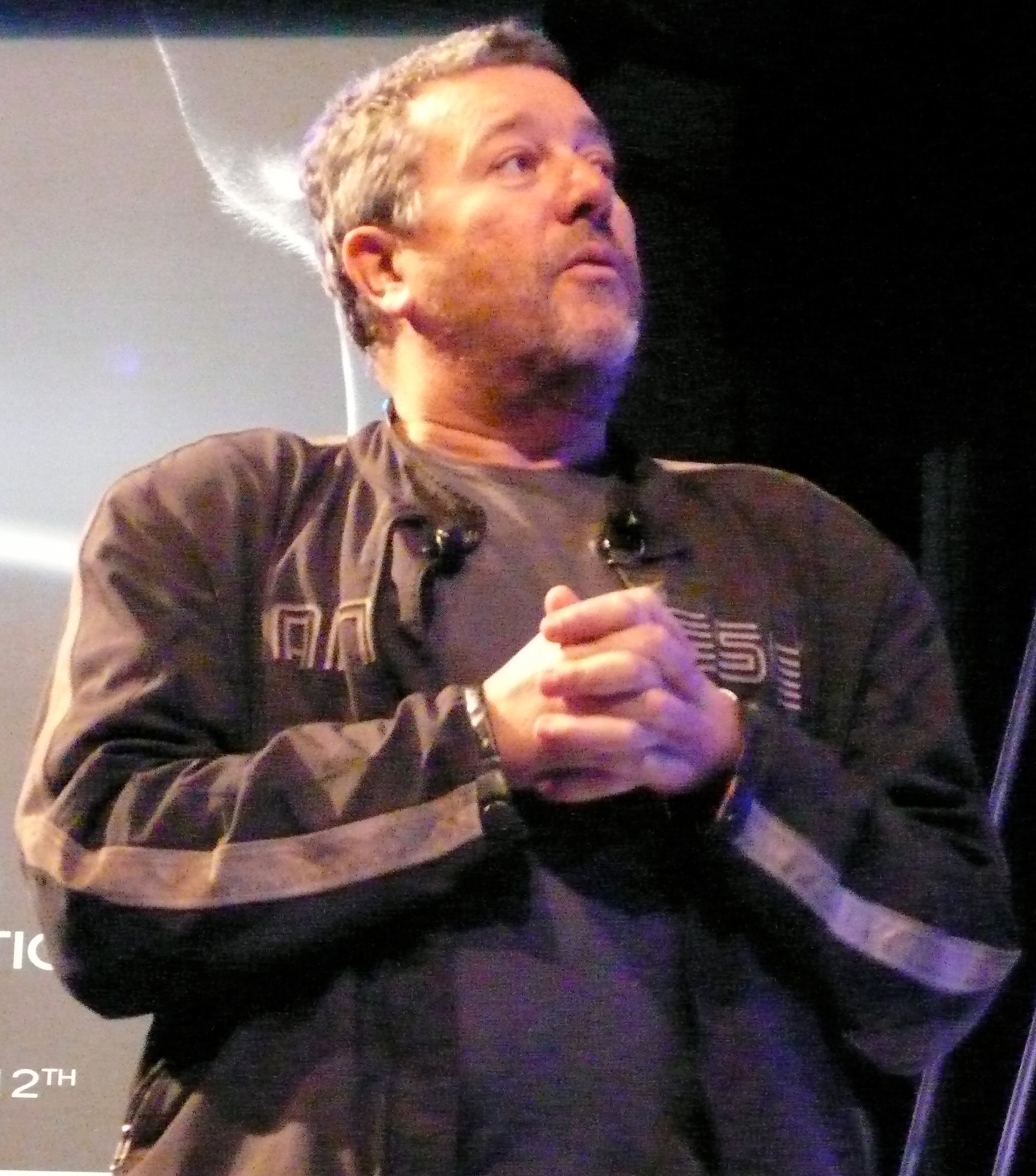 Philippe Starck at Le Web '07 in Paris.